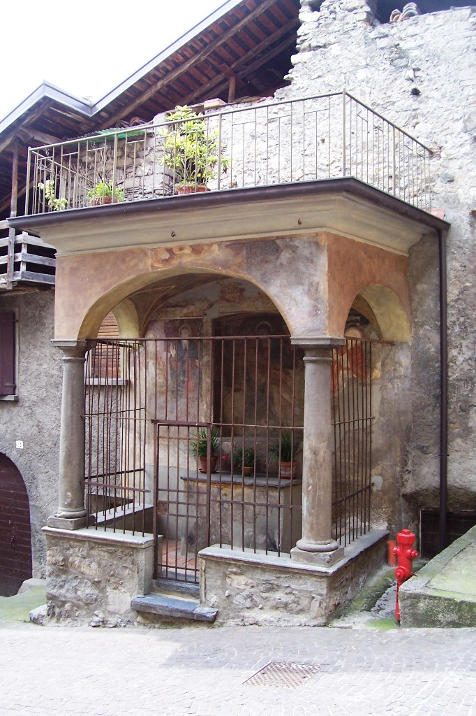 Chapel, Malegno, Val Camonica